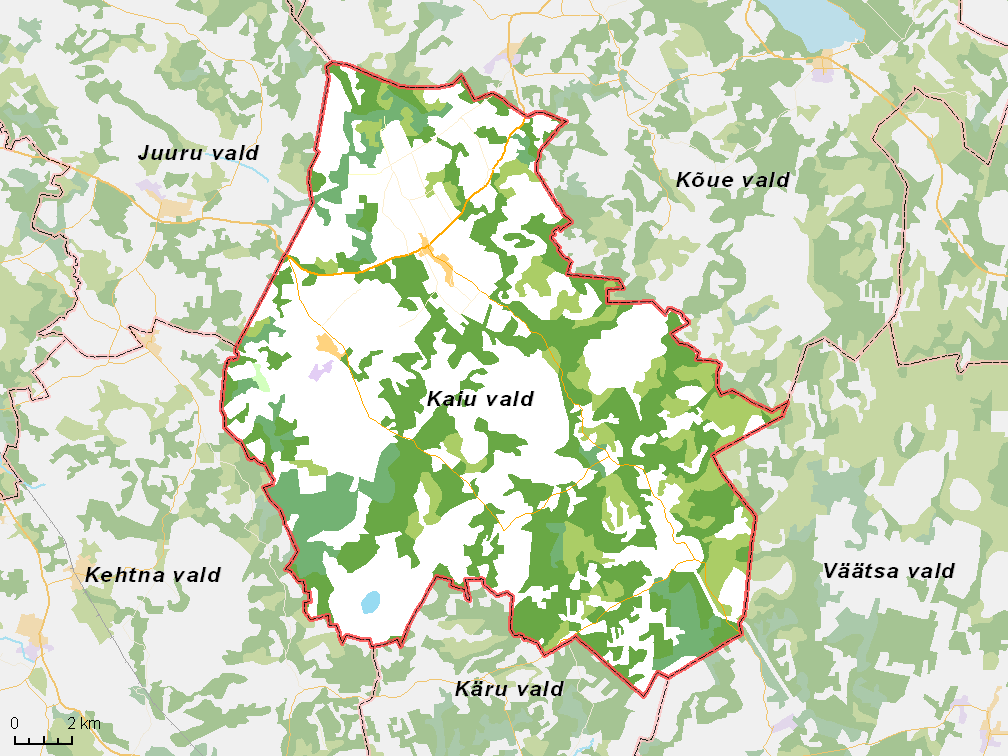 Map of municipality in Estonia